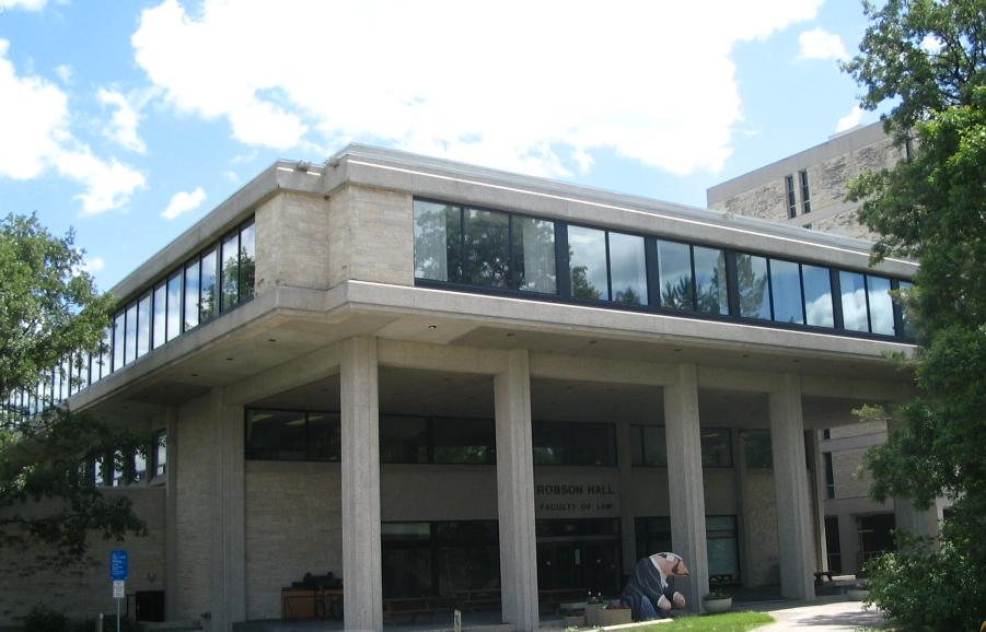 A picture of Robson Hall (Faculty of Law - University of Manitoba)